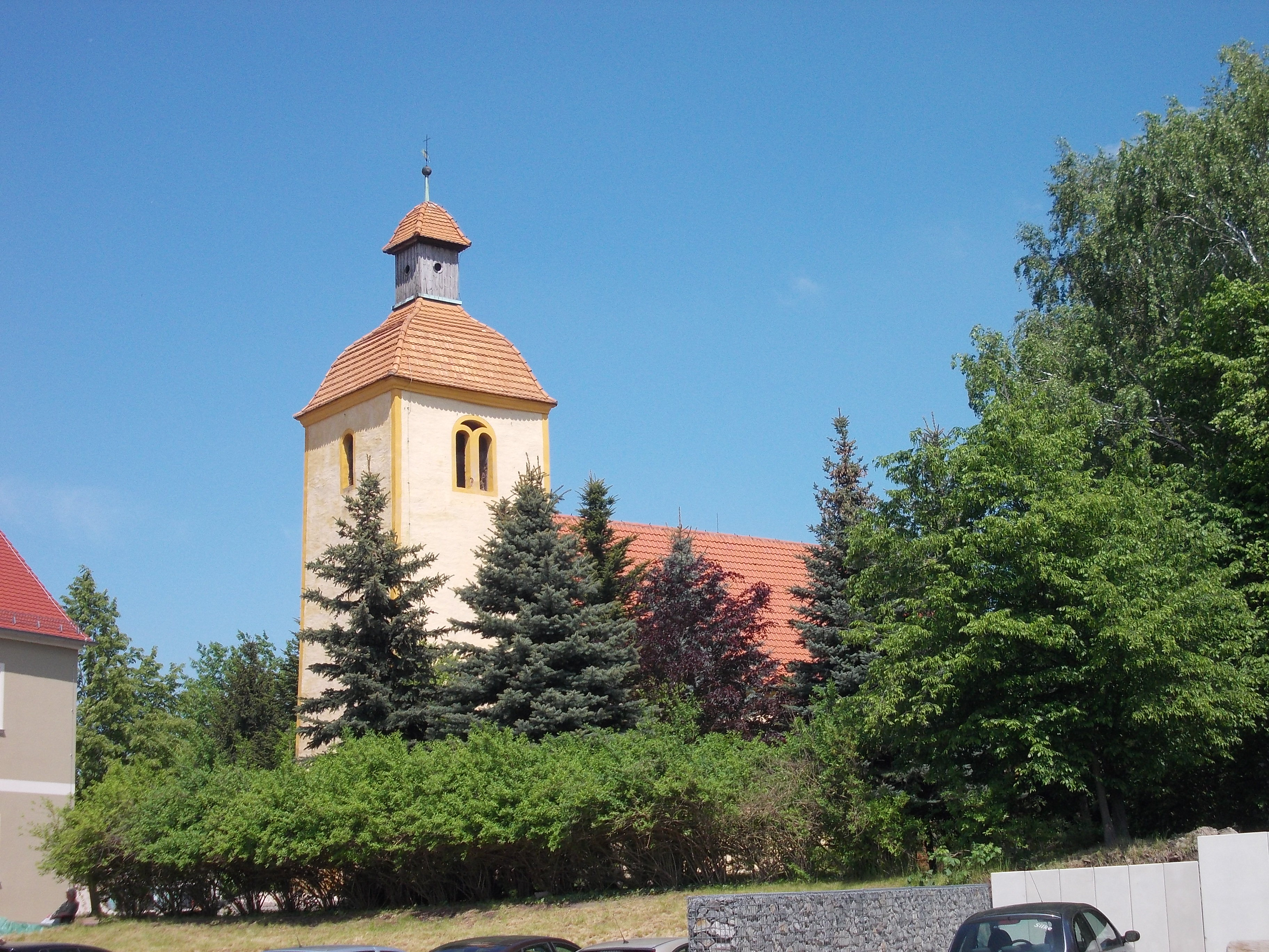 St. Mary's Church in Rotta (Kemberg, Wittenberg district, Saxony-Anhalt)